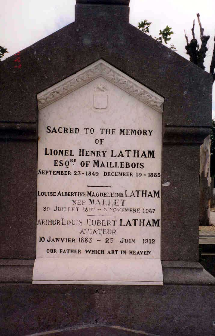 Personal photograph taken by Stephen H. King 11/14/04